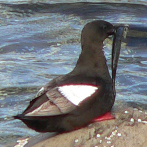 Black Guillemot; picture taken at Mousa, Shetland, Scotland